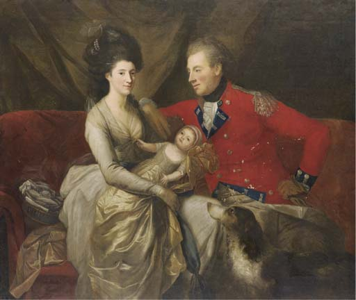 George Rochfort (12 October 1738 – 13 May 1814), 2nd Earl of Belvedere, and his second wife Jane. Oil on canvas 52 x 61 in. (132 x 155 cm.)